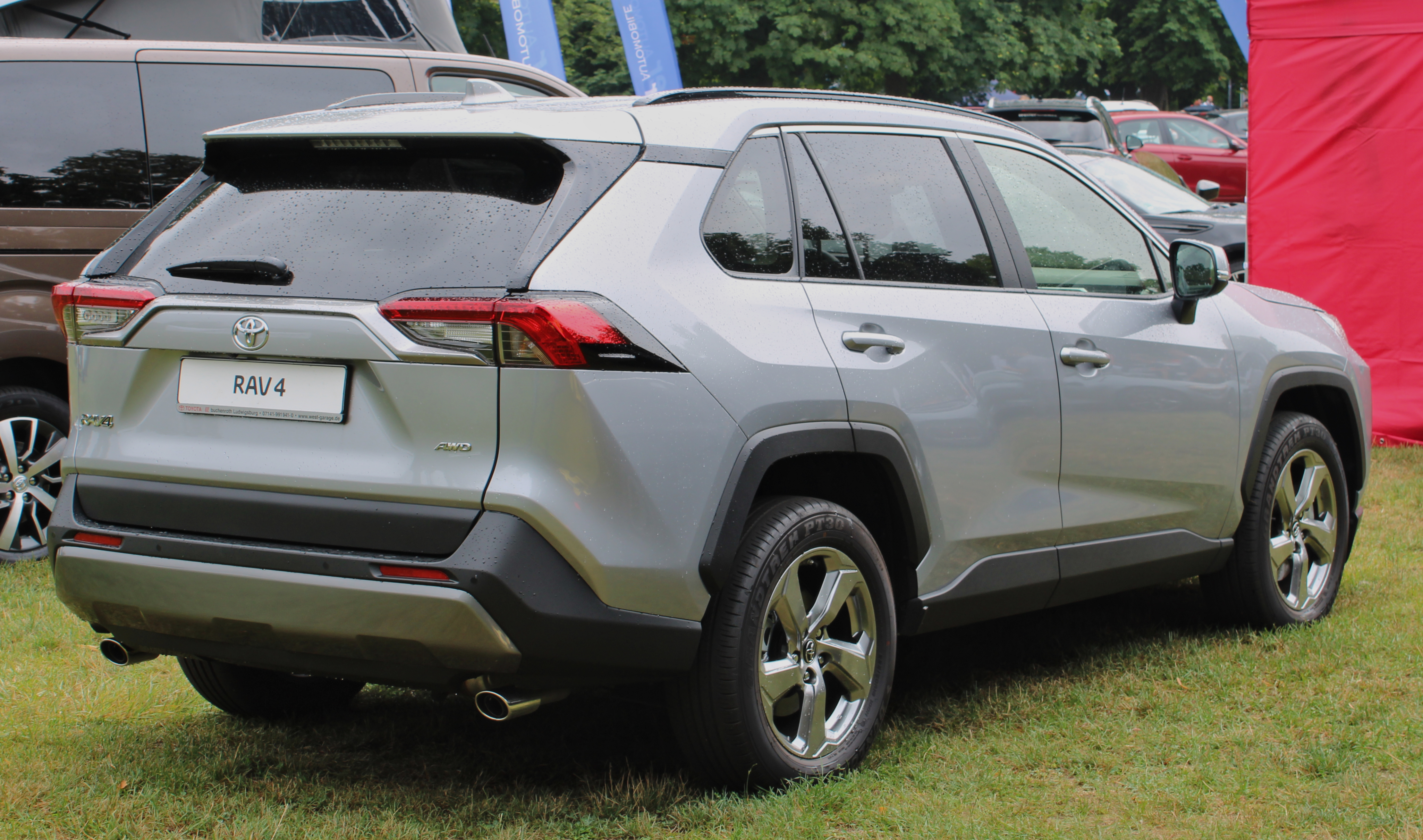 Toyota RAV4 at Schloss Monrepos 2019